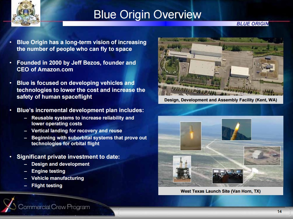 Blue Origin overview presented by NASA during a Commercial Crew Progress Status Update